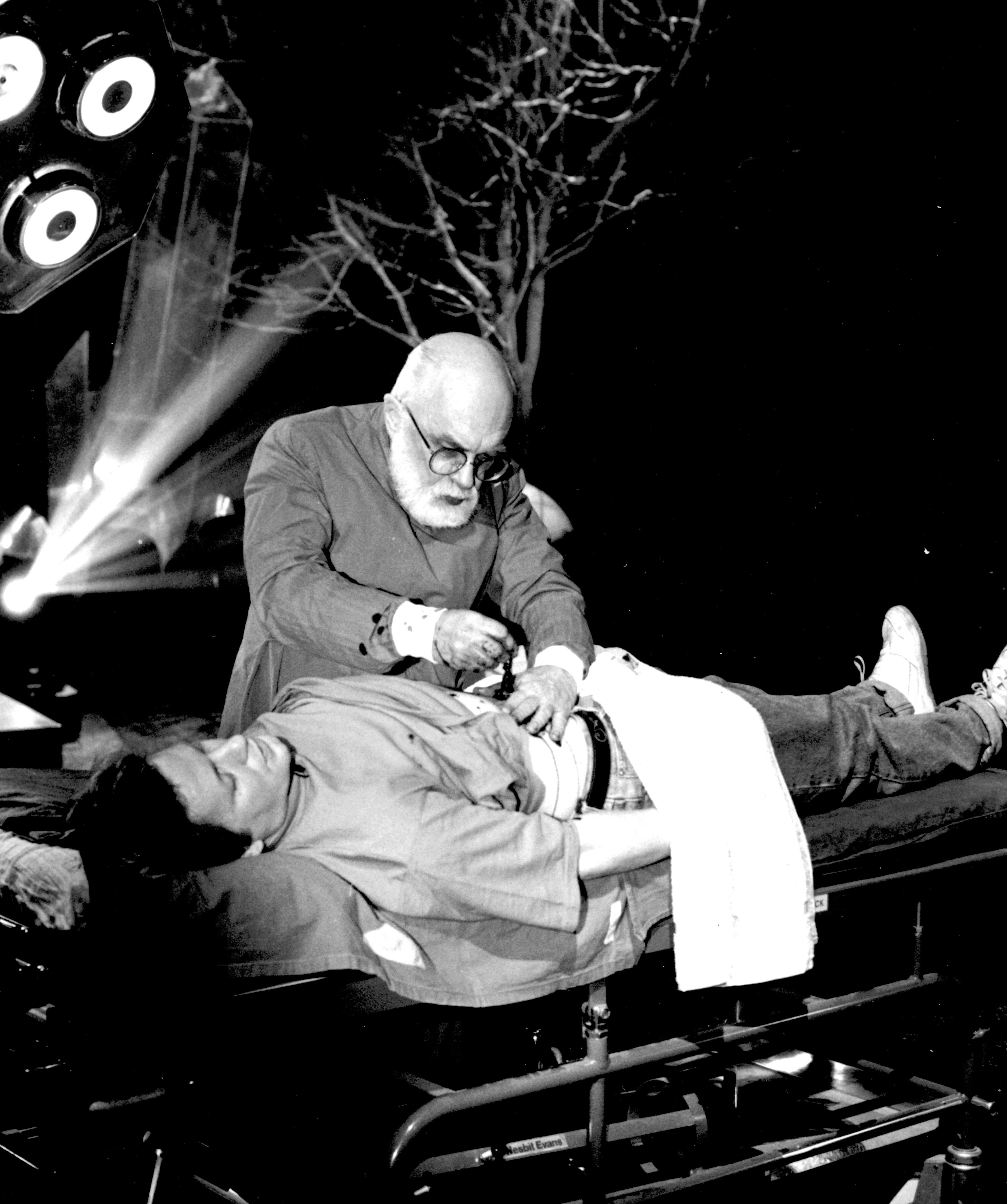 James Randi demonstrating 'psychic surgery' on the ITV series James Randi, Psychic Investigator, made by Open Media in 1991.